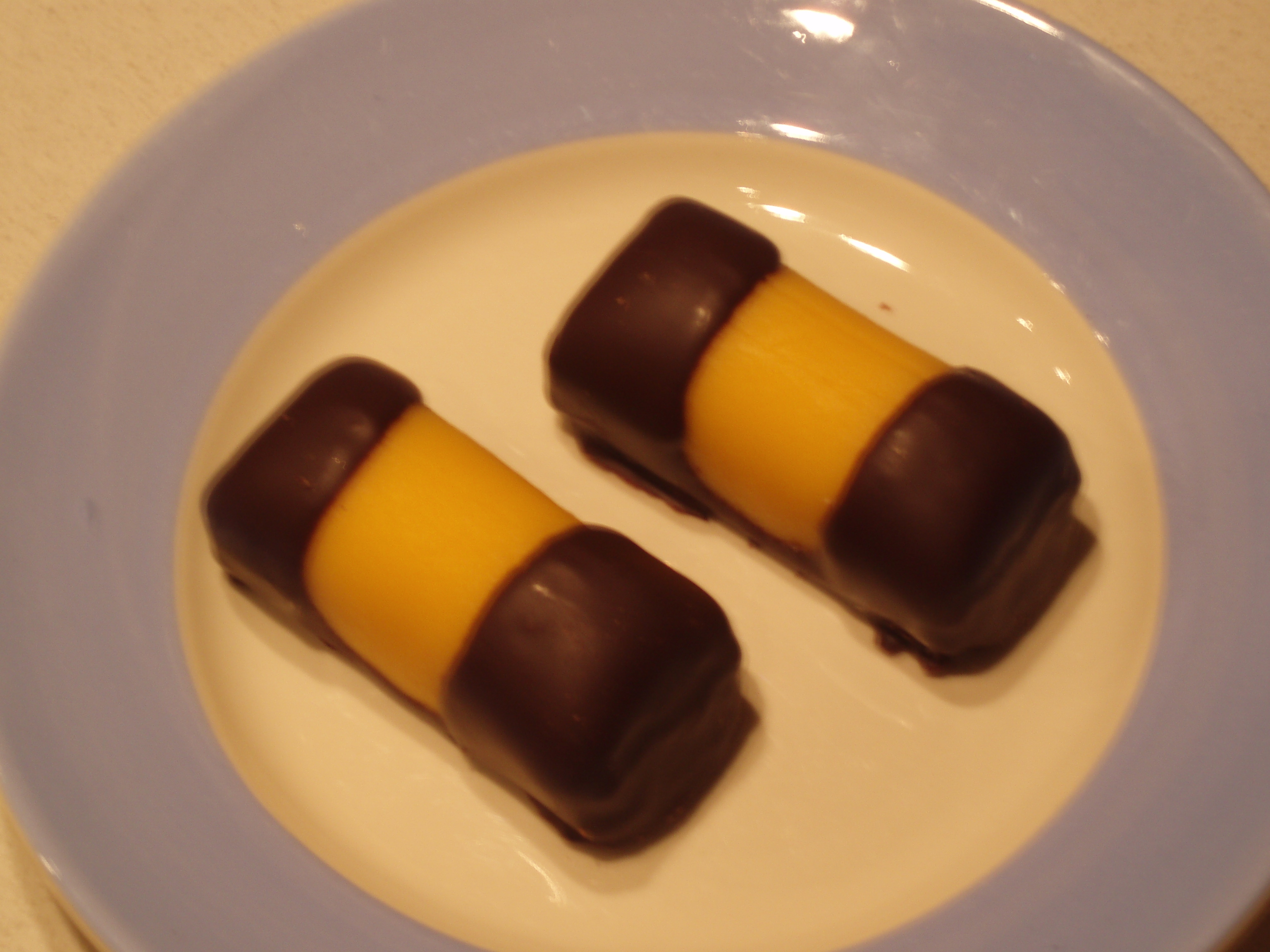 Two Mergpijpjes (Dutch pastrys)